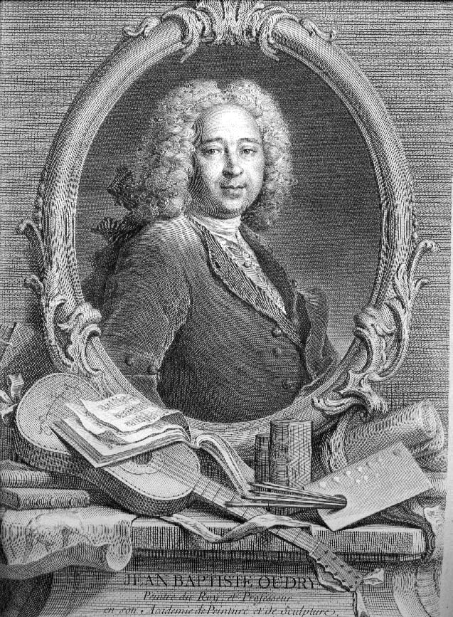 Portrait of Jean-Baptiste Oudry (1686-1755), French painter and engraver